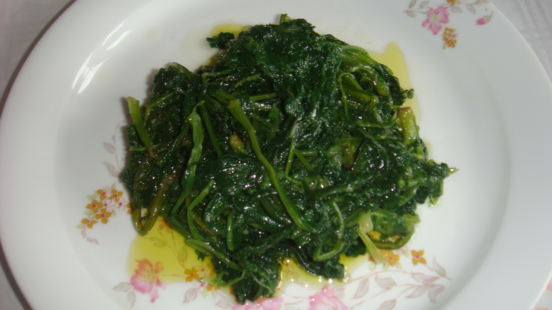 Boiled wild greens (assorted)